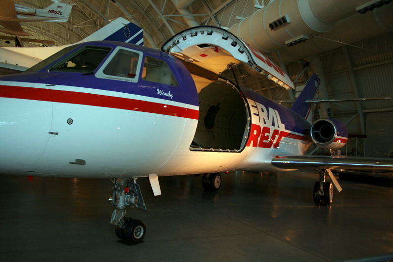 Dassault Falcon 20 at the Udvar-Hazy of the Smithsonian National Air and Space Museum